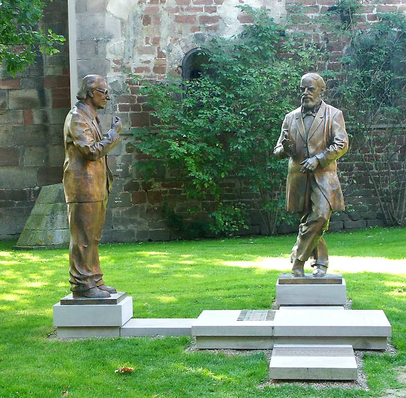 Memorial of Konrad Duden and Konrad Zuse. Konrad Duden (right), German founder of the well-known German language dictionary bearing his name. Konrad Zuse (left), German inventor of the computer. Both former citizens of Bad Hersfeld. The memorial is situated in monastery sector of Bad Hersfeld